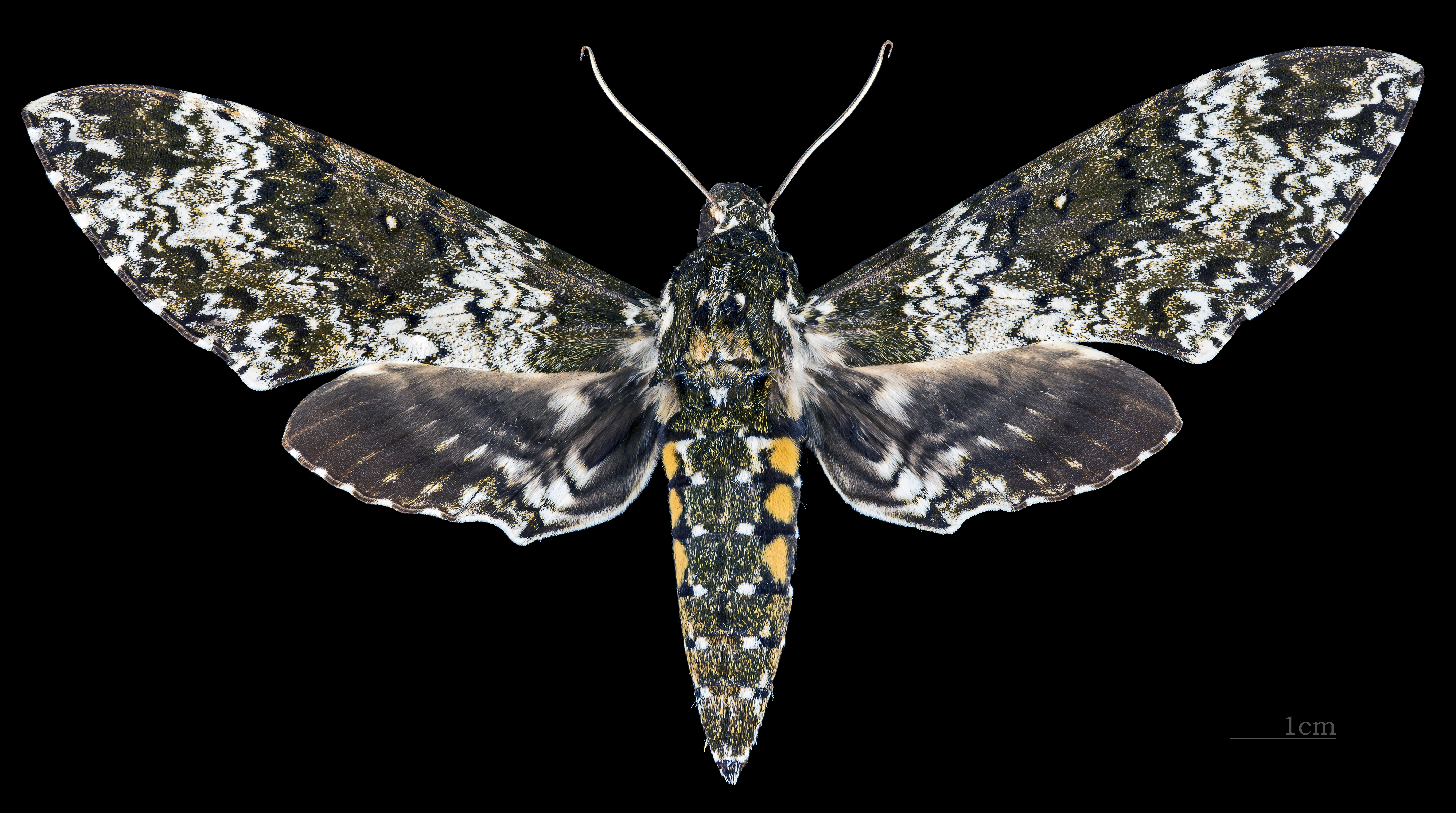 Rustica sphinx Manduca rustica - Dorsal side Collection of the Mathematician Laurent Schwartz